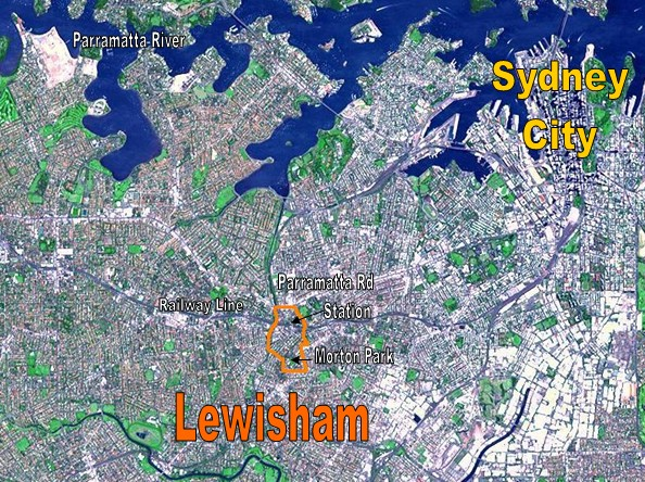 Location Map for the suburb of Lewisham, NSW based on NASA satellite map. Modified to identify suburb boundaries and identifiable landmarks. Original NASA image number: PIA03498